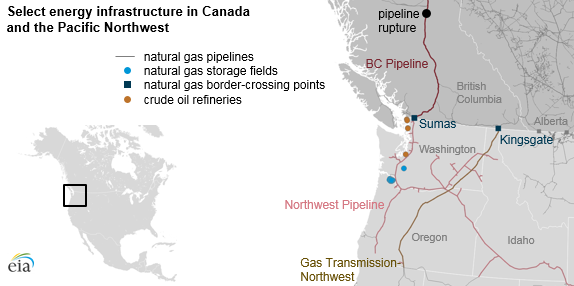 The October 9, 2018 rupture of Enbridge’s BC natural gas pipeline near Prince George, British Columbia, affected natural gas supply, electricity generation, and petroleum refining in the U.S. Pacific Northwest. October 18, 2018